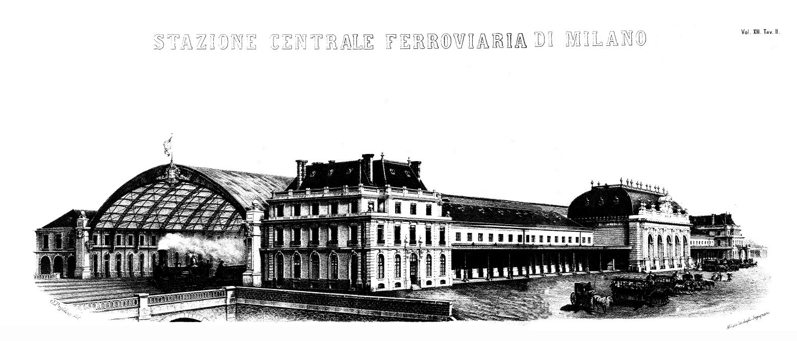 Riproduzione della prima Stazione di "Milano Centrale" - 1865 Engraving of the first "Milano Centrale" railway station - 1865 Two tables had been united, slightly restored and cleaned by myself